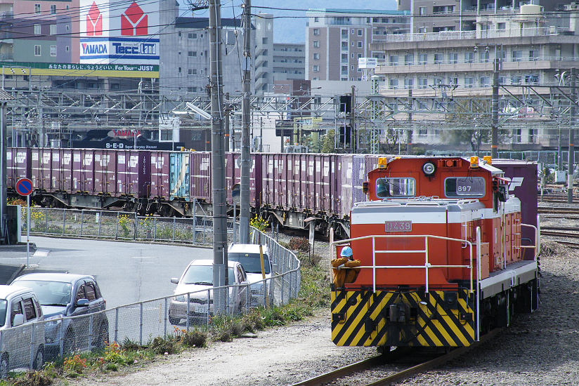 A freight train hauled by Nippon Paper switcher D439 at Iwakuni Station in Yamaguchi Prefecture, Japan